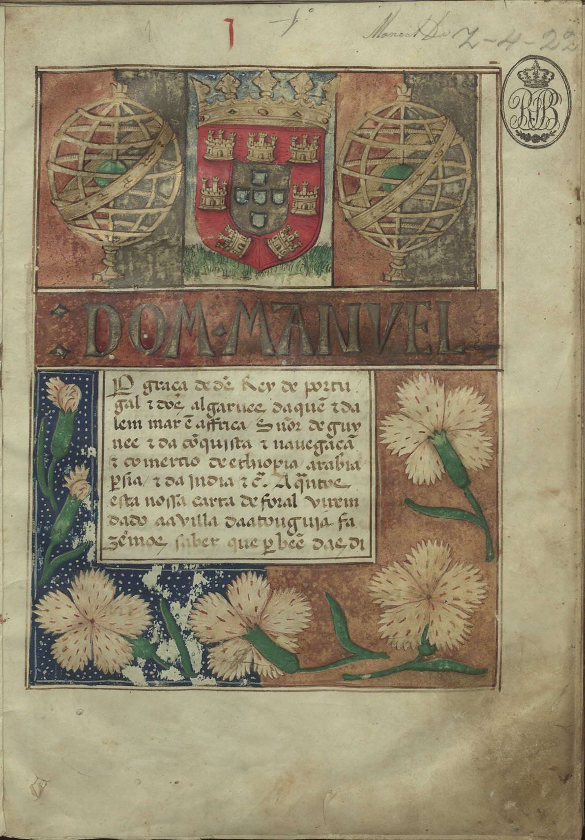 Town Charter of Atouguia, dated 1 June 1510.